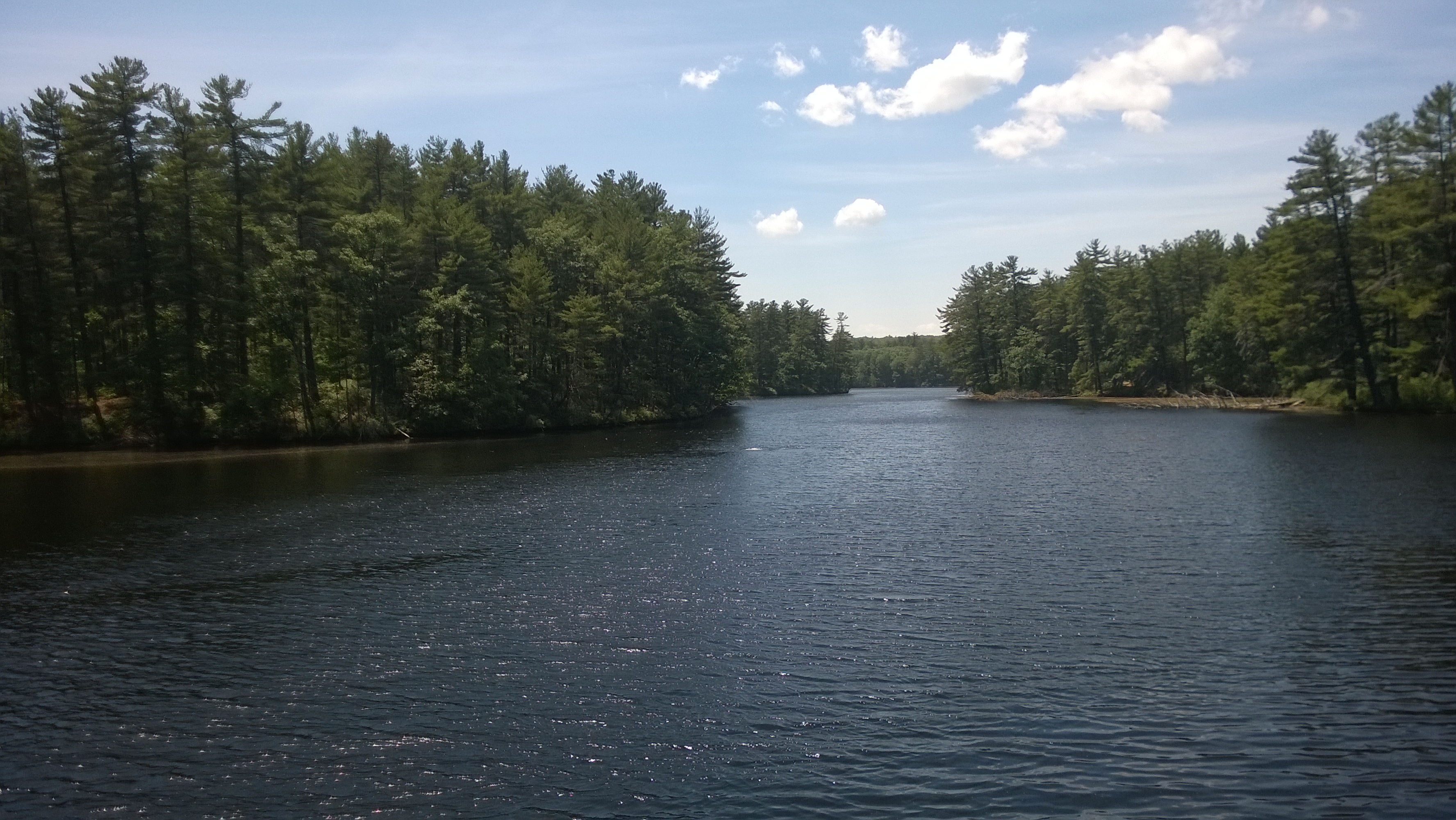 View of Supply Pond looking west, part of Pennechuck Brook, taken from the bridge on Manchester Street in Nashua near the Merrimack border, Nashua, New Hampshire